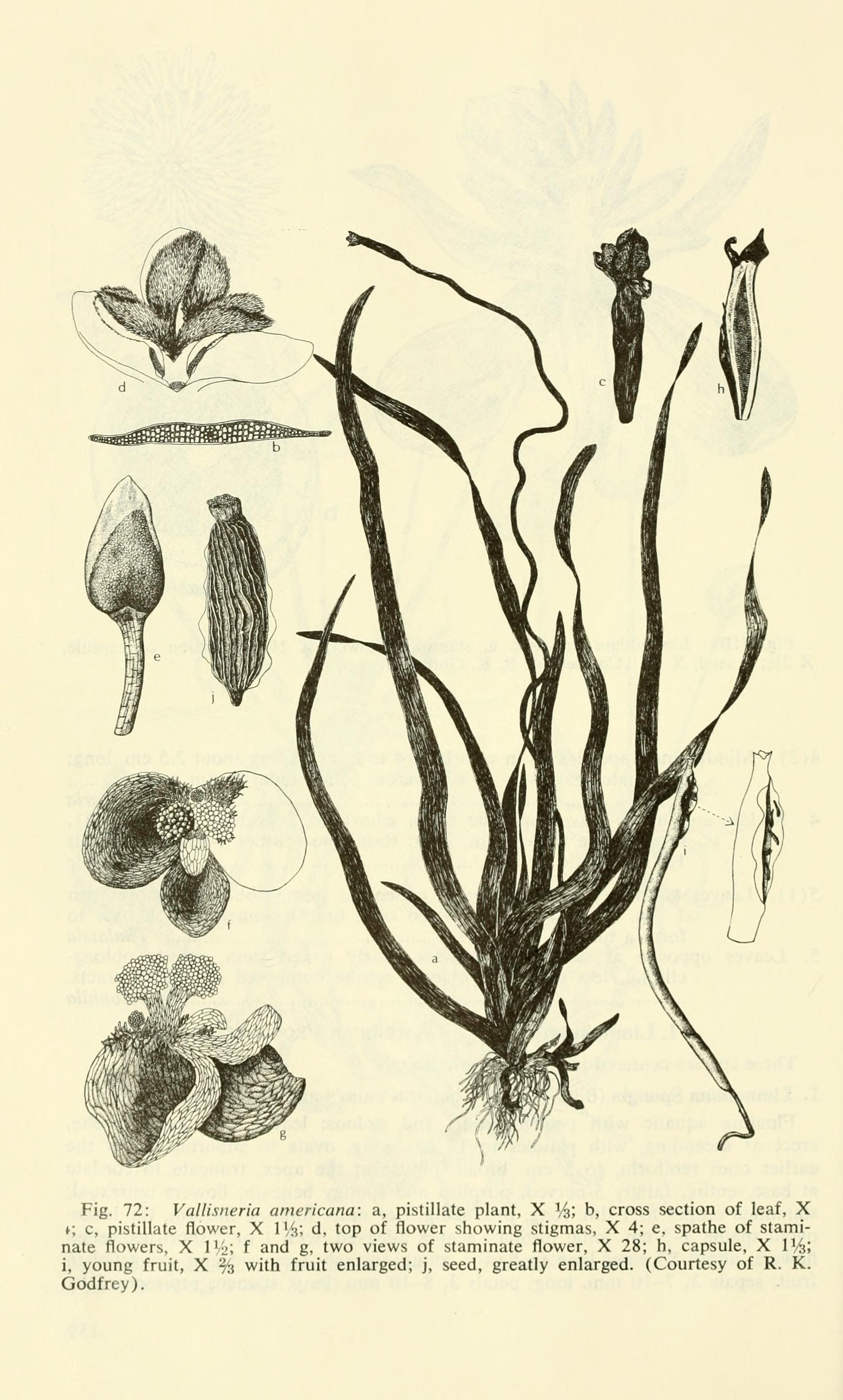 Aquatic and wetland plants of southwestern United States, by Donovan S. Correll and Helen B. Correll.